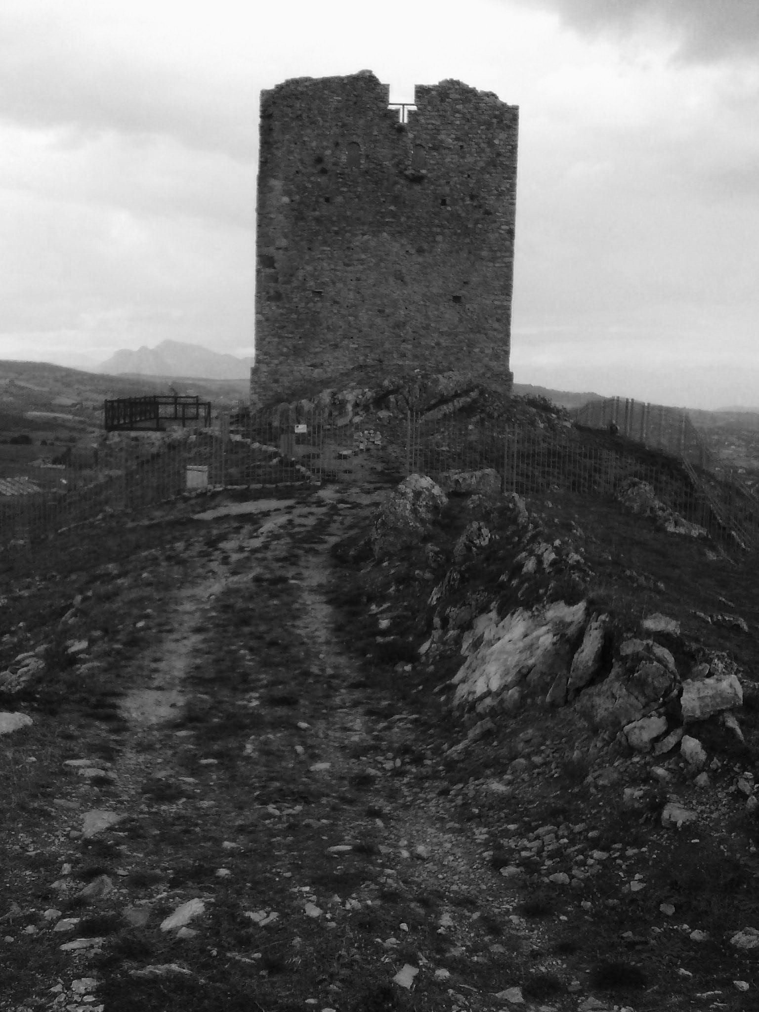 Satrianum Tower (Black and White) view, Satriano di Lucania, PZ, Italy